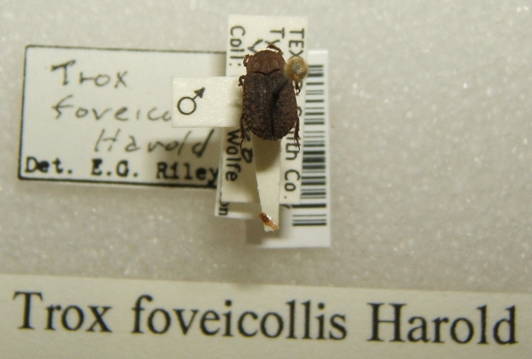 Trox foveicollis adult taken by Shawn Hanrahan at the Texas A&M University Insect Collection in College Station, Texas. Cropped version: Trox foveicollis sjh.cropped.jpg